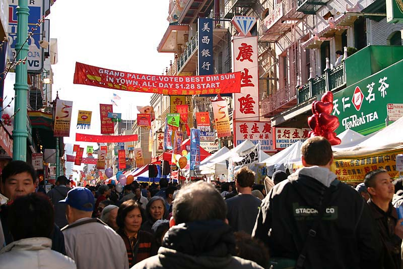 Kelvin Kay user:Kkmd